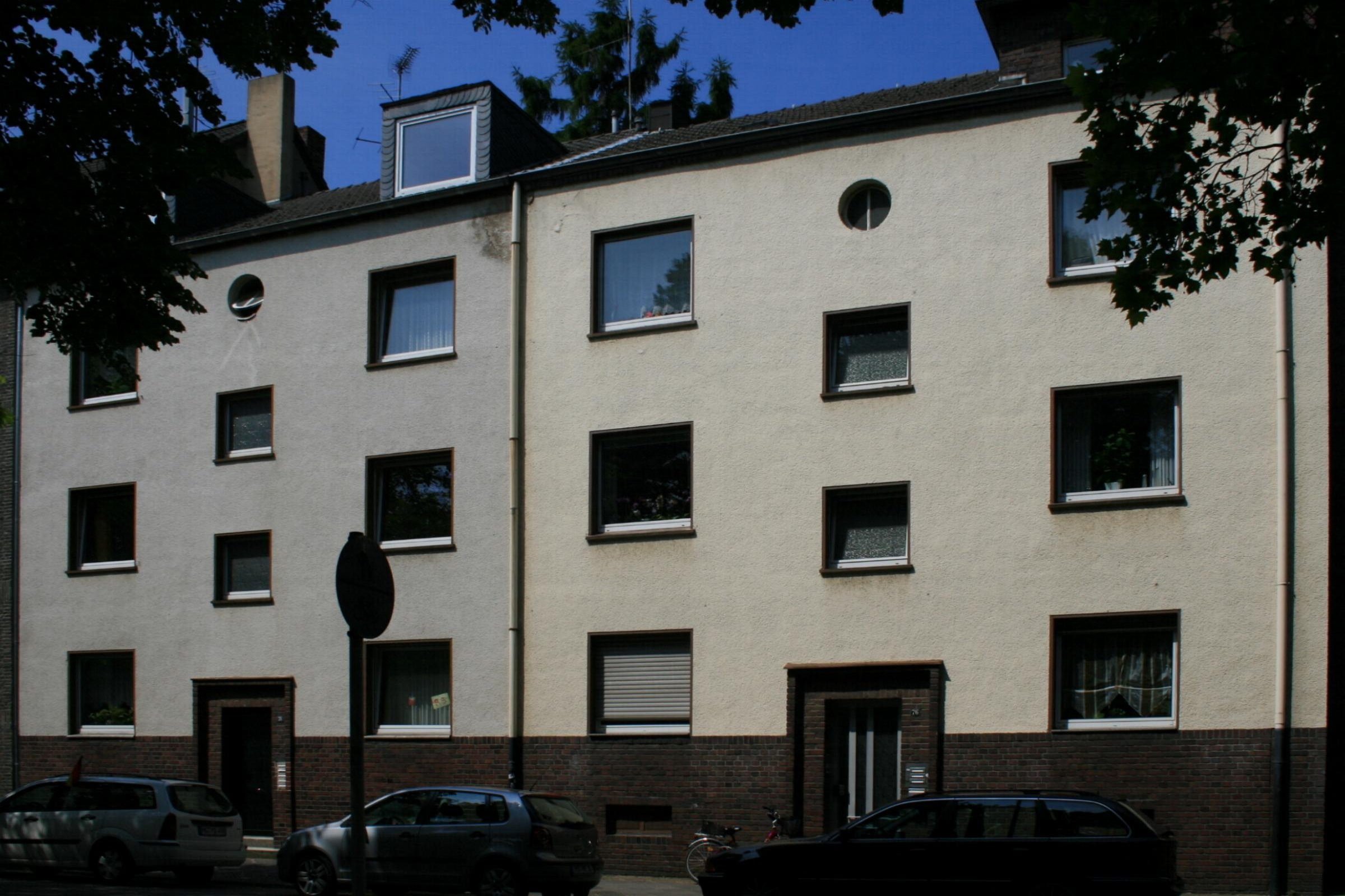 Cultural heritage monument No. R 079 in Mönchengladbach